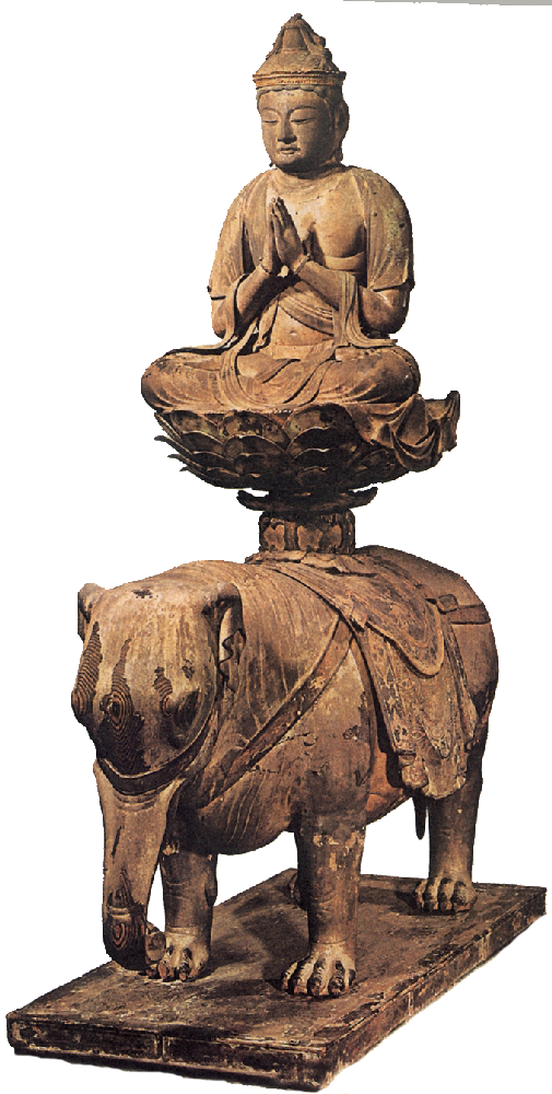 Samanta Bhadra Bodhisattva is a famous Boddhisattva in Mahayana Buddhism.